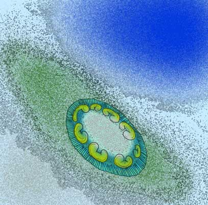 Reconstruction of the proarticulatan Armillifera parva, of Precambrian Russia